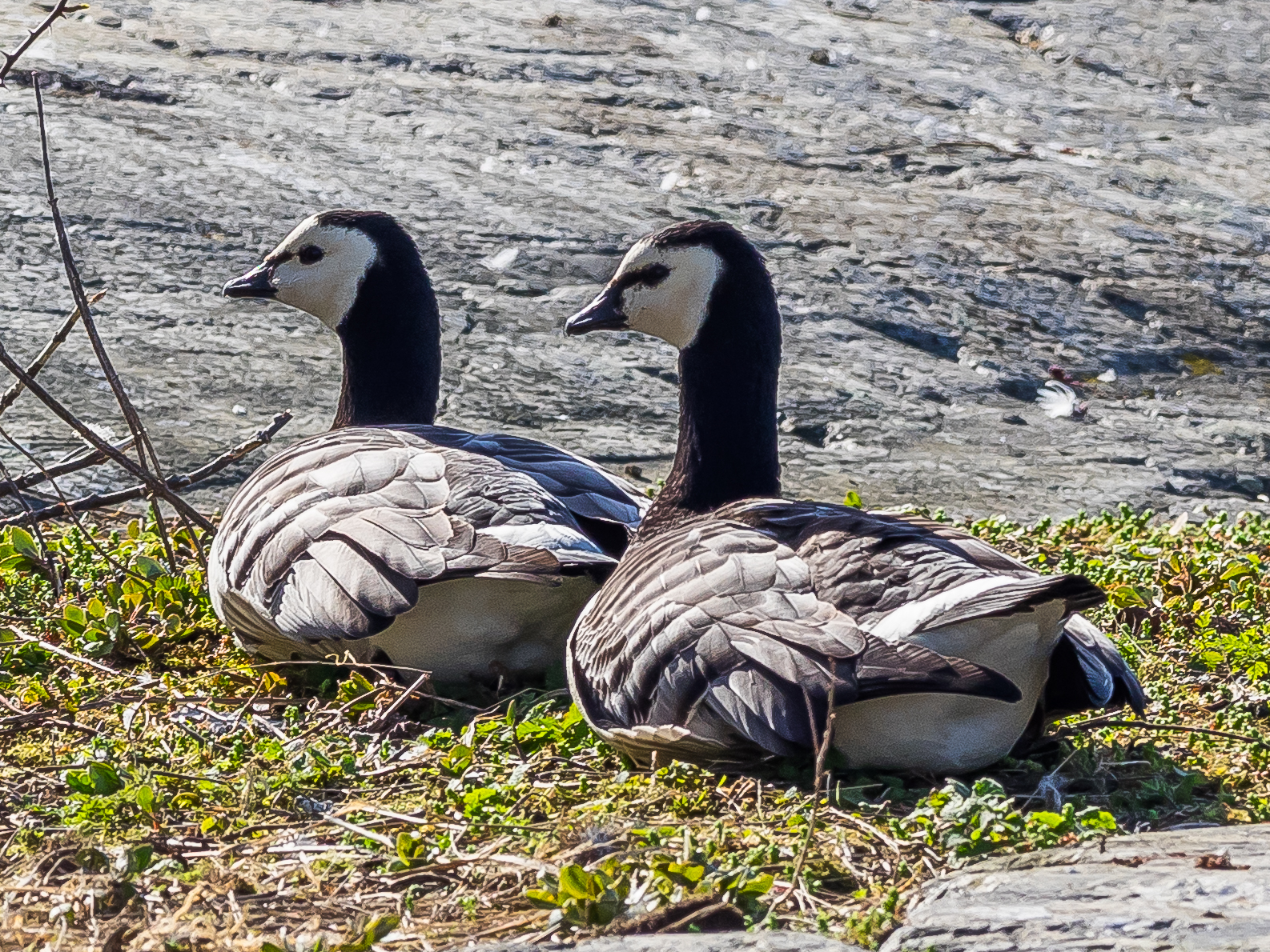 Vitkindad gås, Barnacle Goose, Branta leucopsis, around Vaxholm, Sweden